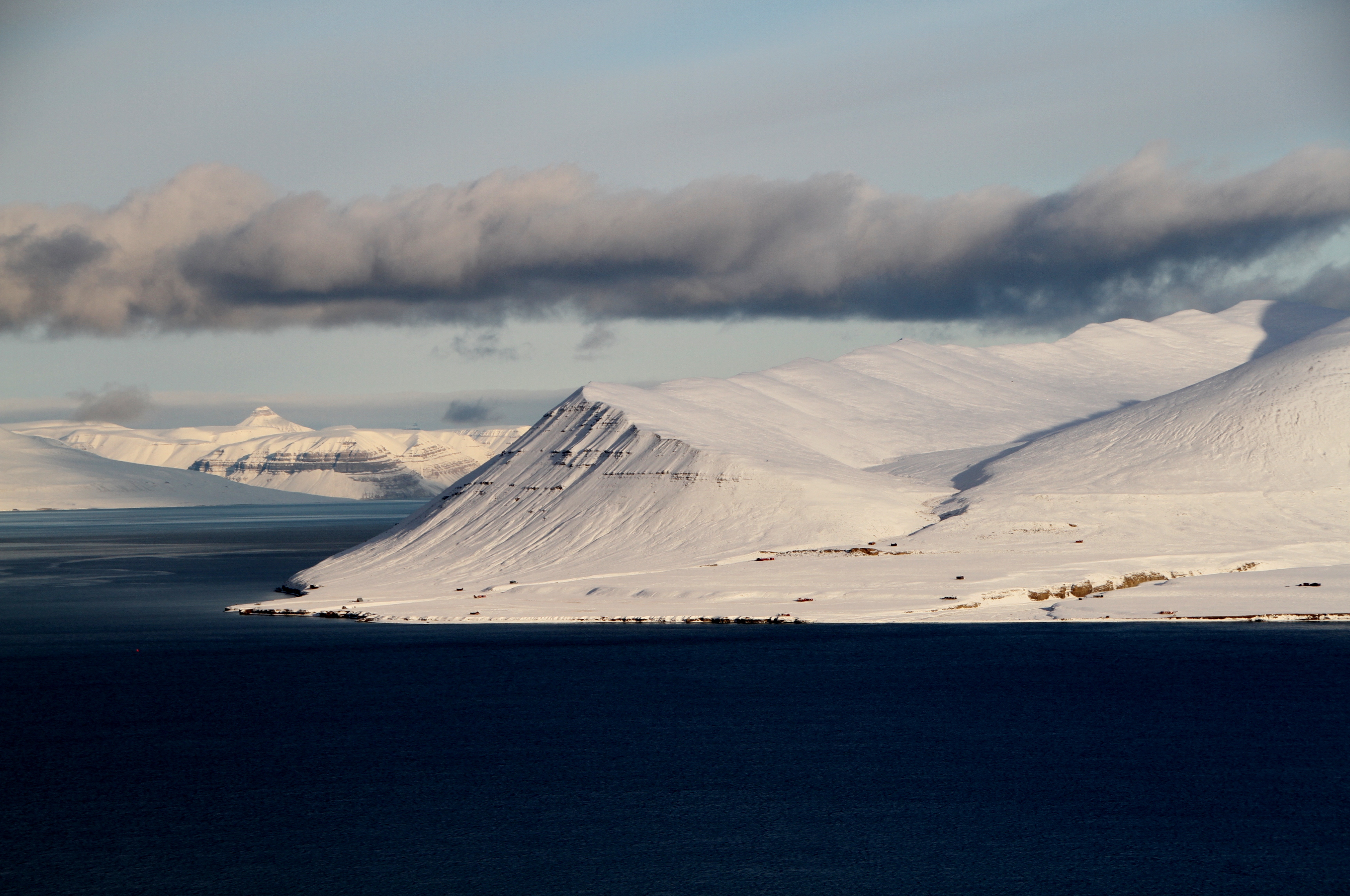 Reveneset peninsula in the Advent Fjord, west of Longyearbyen - Spitsbergen